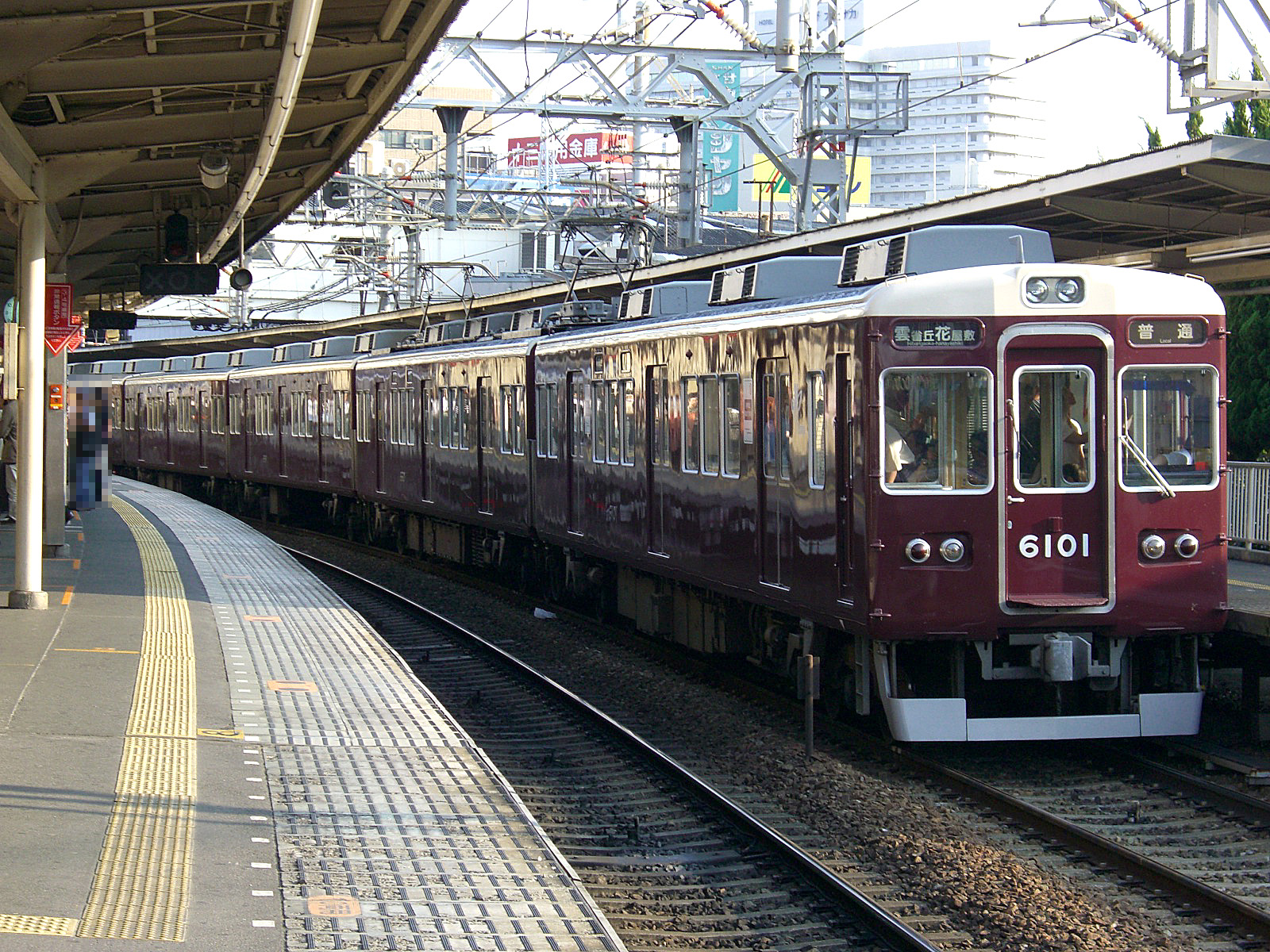 Hankyu Railway 6000series 8-car set at Juso Station